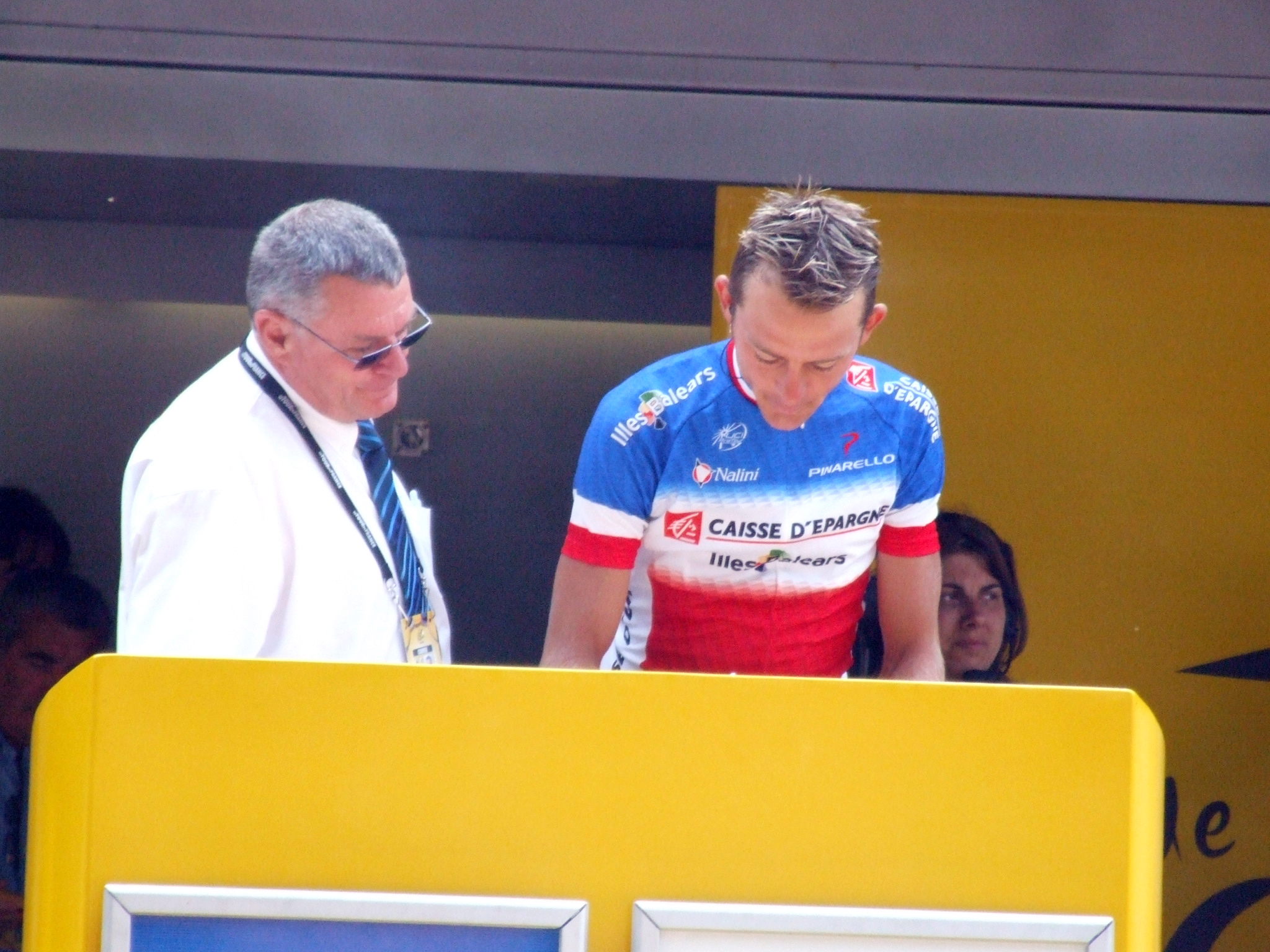 Picture taken at the Tour de France stage 11 in Tarbes by user:Kallenovsky